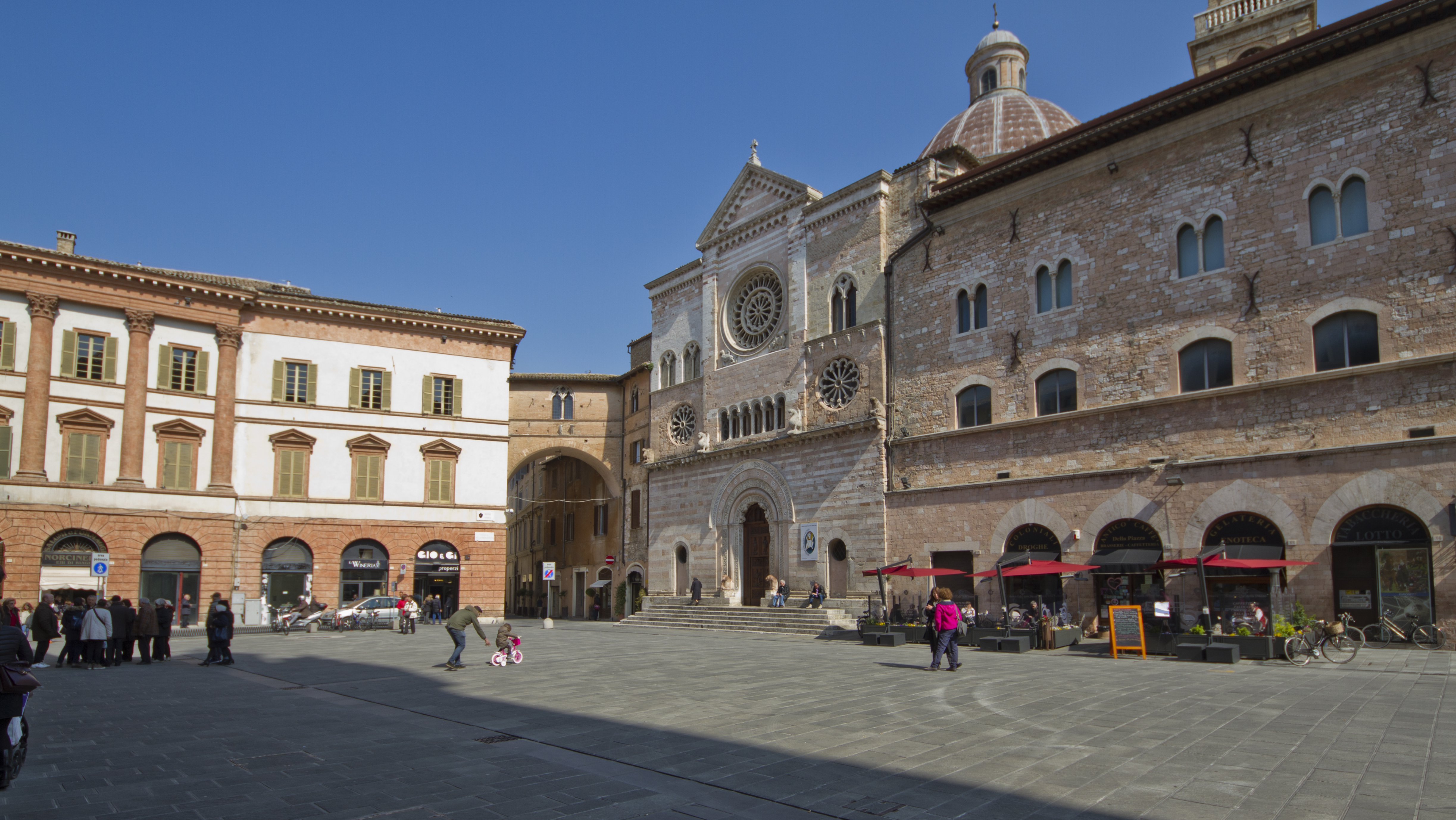 06034 Foligno, Province of Perugia, Italy